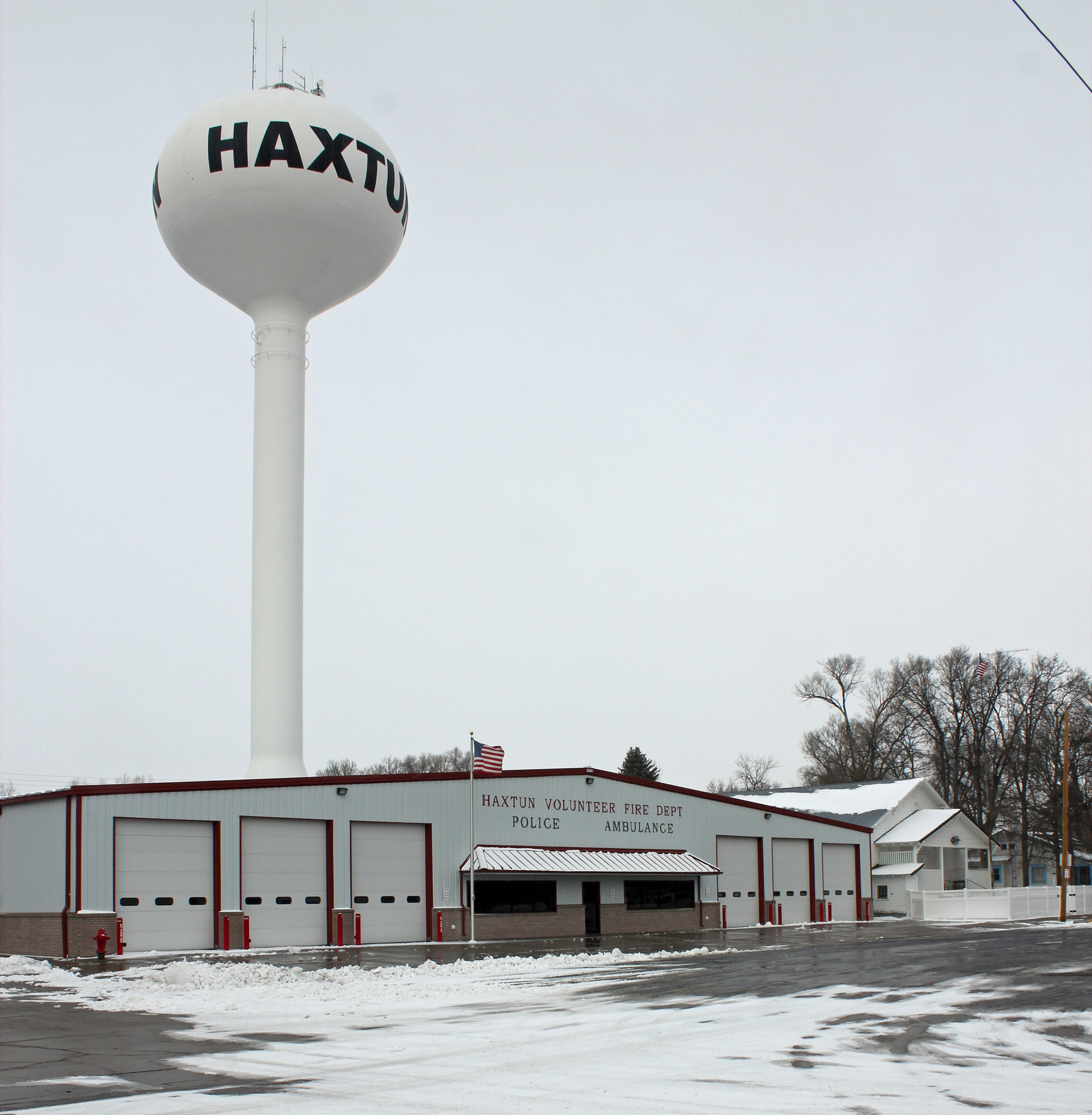 The water tower and fire station in Haxtun, Colorado.